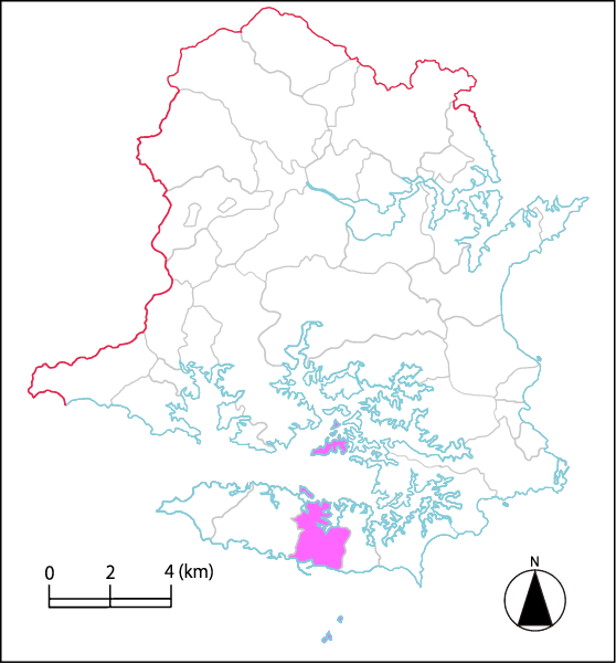 This is the map of Shimacho-Wagu, Shima, Mie, Japan.